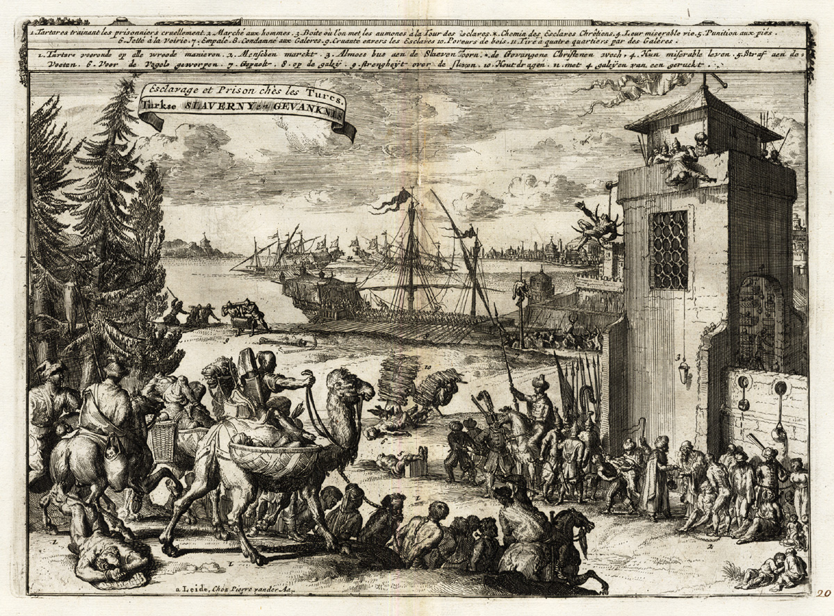 Turkish use of slaves to row galleys, by Pieter van der Aa, from 'La galerie agreable du monde (...). Tome premier des d'Afrique.', published by P. van der Aa, Leyden, c. 1725. Source: ebay, Feb. 2012